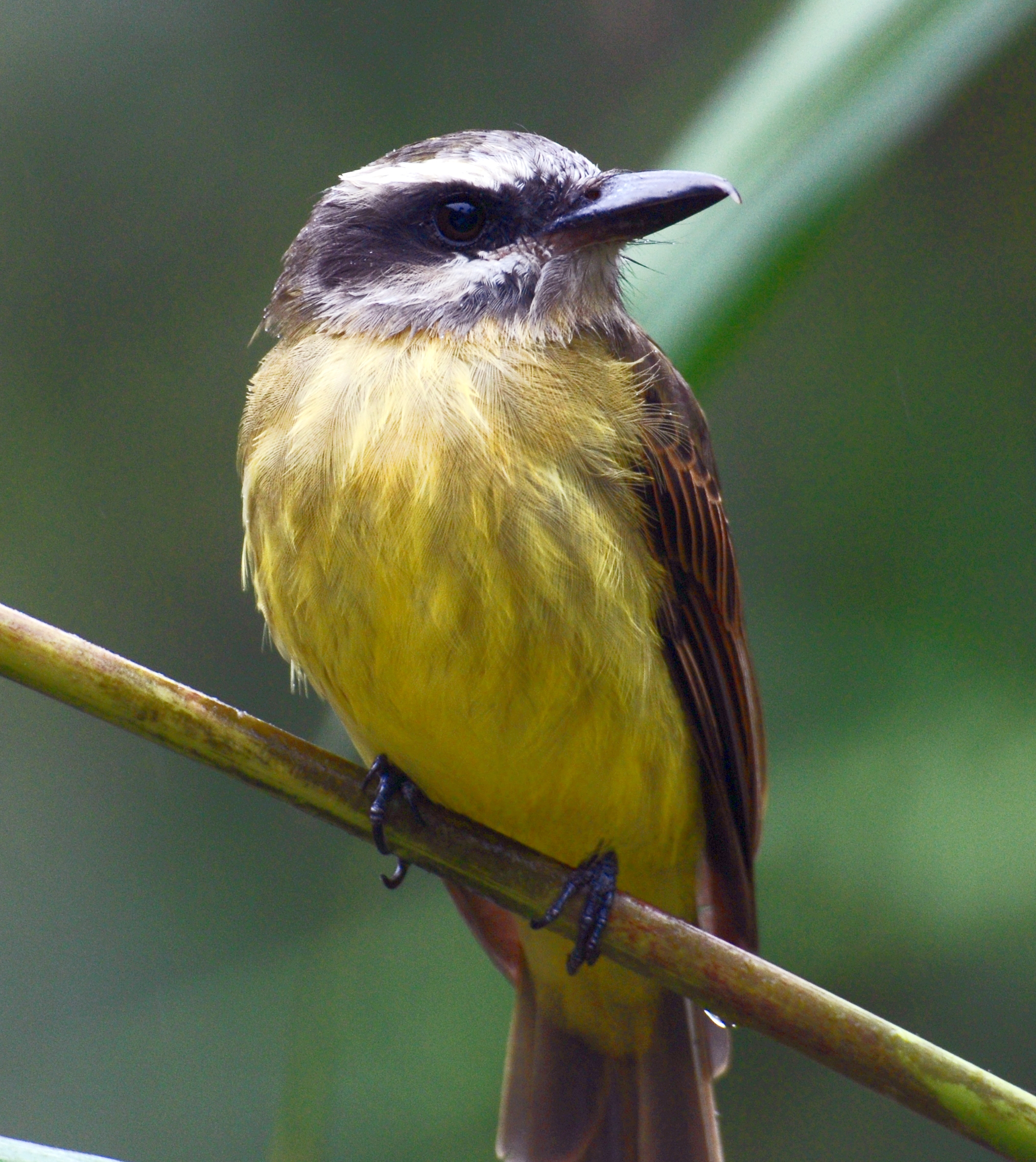 Golden-crowned Flycatcher (Myiodynastes chrysocephalus) at the Bellavista Nature Reserve, Ecuador.